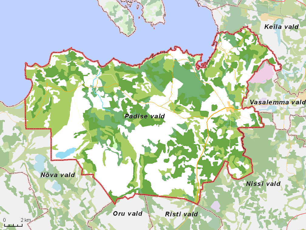 Map of municipality in Estonia